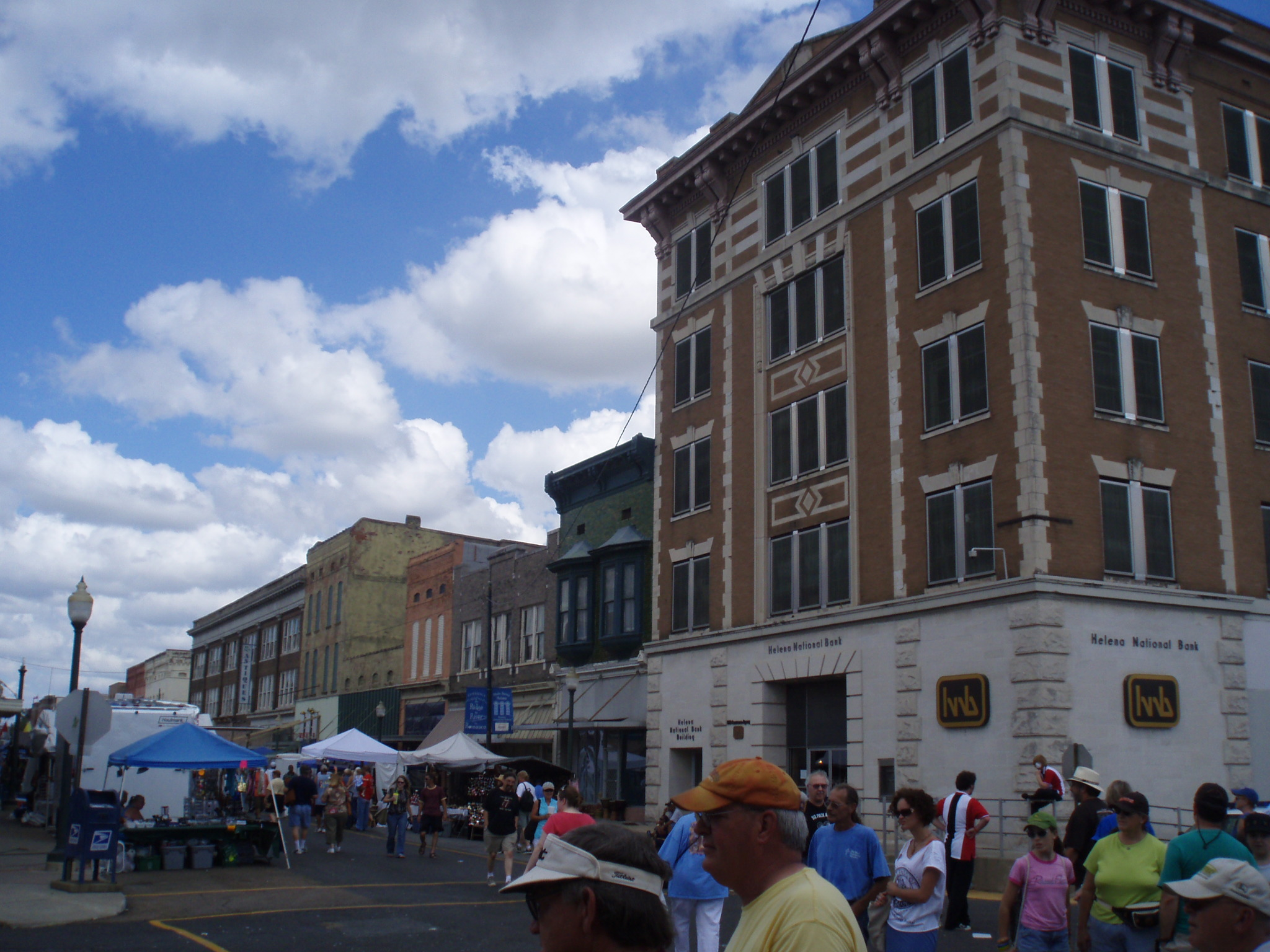 Downtown Helena-West Helena, AR during the Arkansas Heritage Blues Festival on October 6, 2007. This section of the city is part of the Cherry Street Historic District, a historic district that is listed on the National Register of Historic Places.